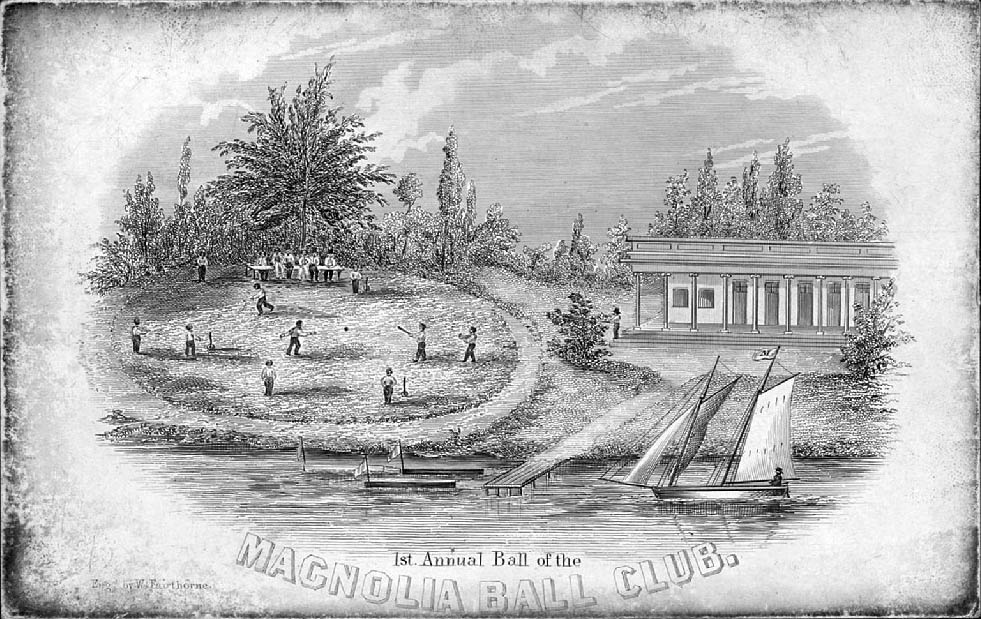 Ticket to the "1st Annual Ball of the Magnolia Ball Club". Engraving features the Colonnade Hotel at the Elysian Fields and a group of men playing baseball.